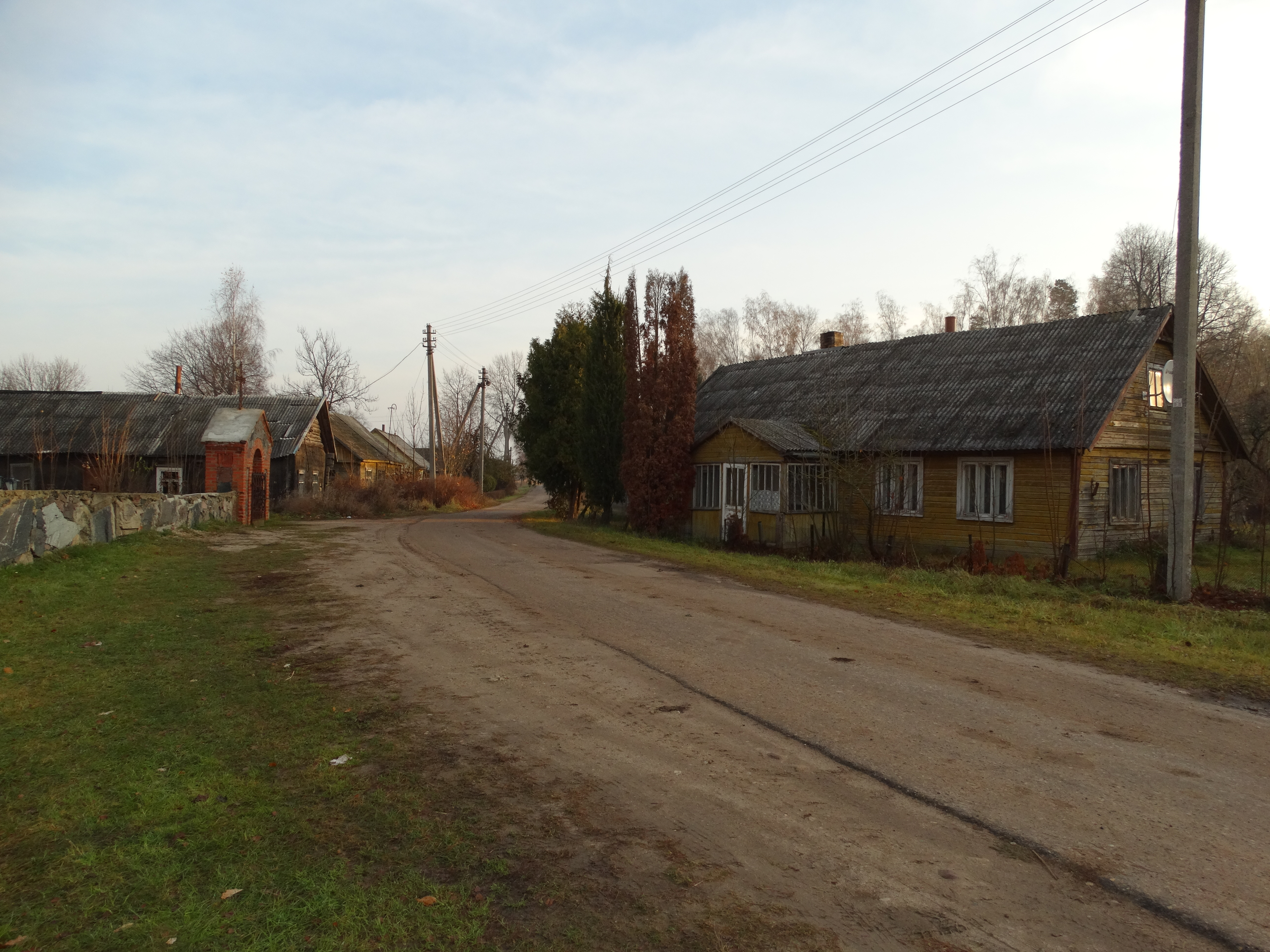 Kupreliškis, Biržai district, Lithuania